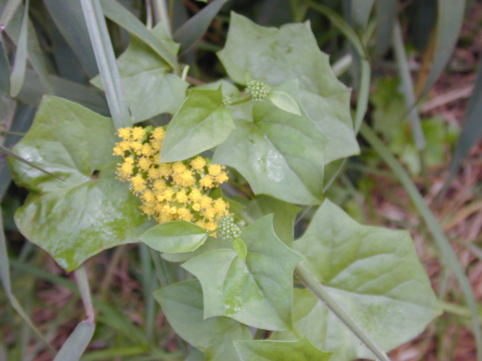 Delairea odorata (leaves and flowers). Location: Maui, Piiholo